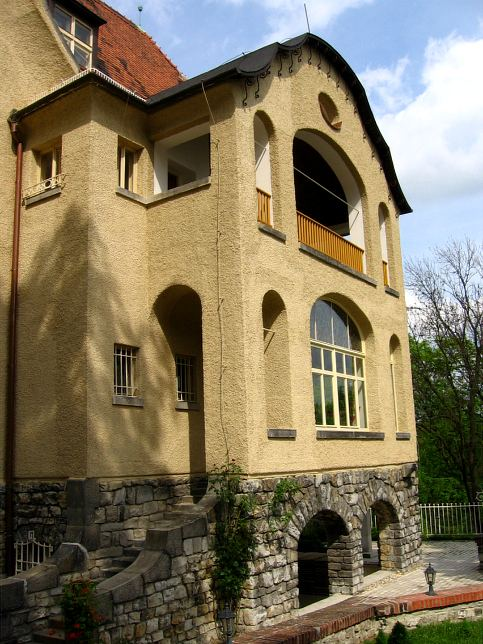 The Primavesi Villa in Olomouc - wiew from the garden